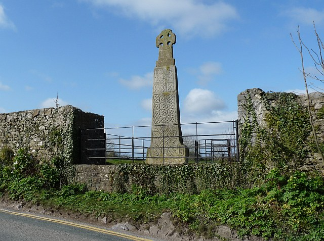 Carew Cross Protected by Cadw the historic environment service of the Welsh Assembly Government. The Cadw web site states, 'Magnificent eleventh-century decorated cross, probably commemorating Maredudd ap Edwin (d. 1035). This cross provides the inspiration for the symbol of Cadw'.